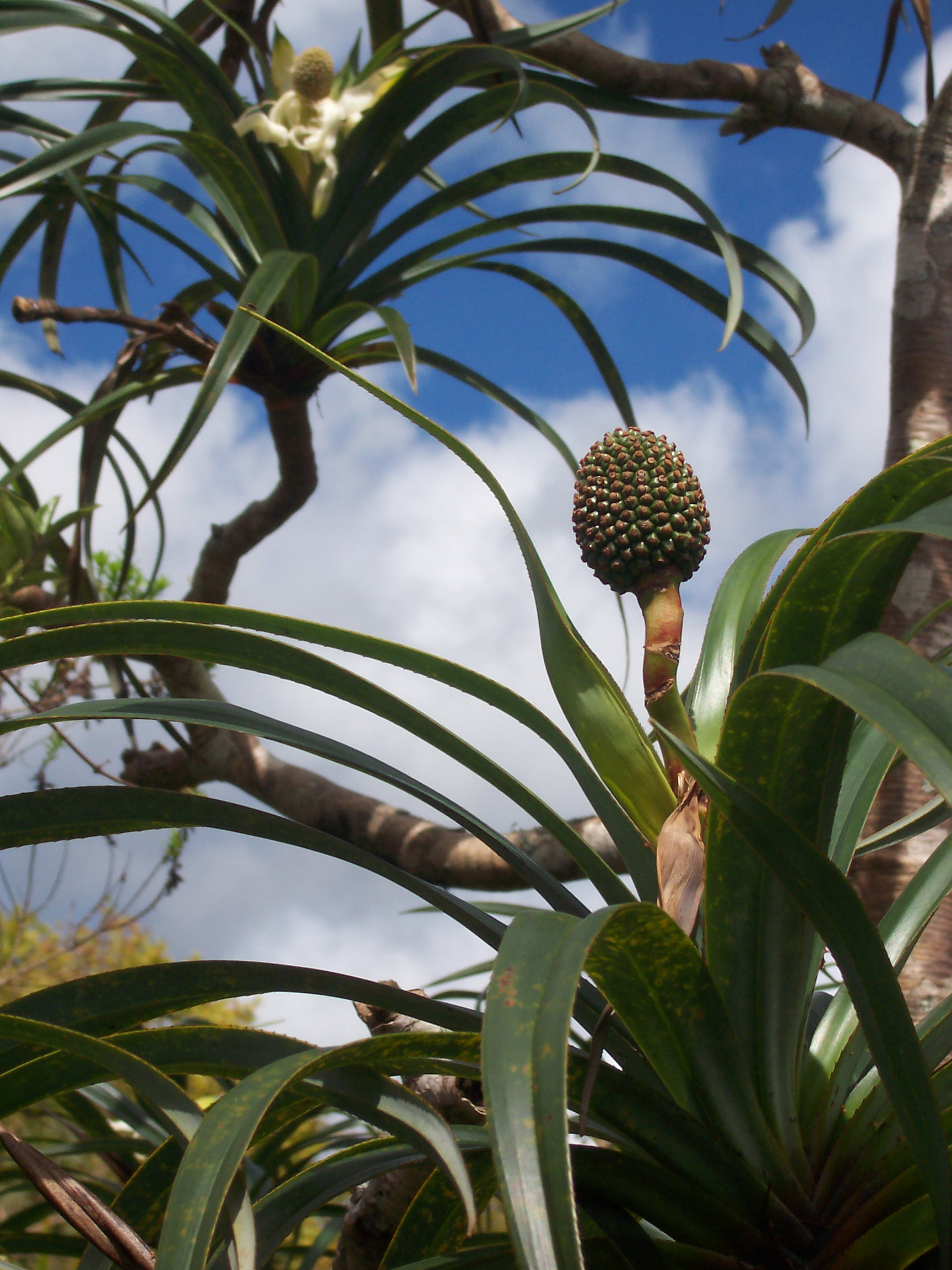 Pandanus montanus fruit (Réunion island)